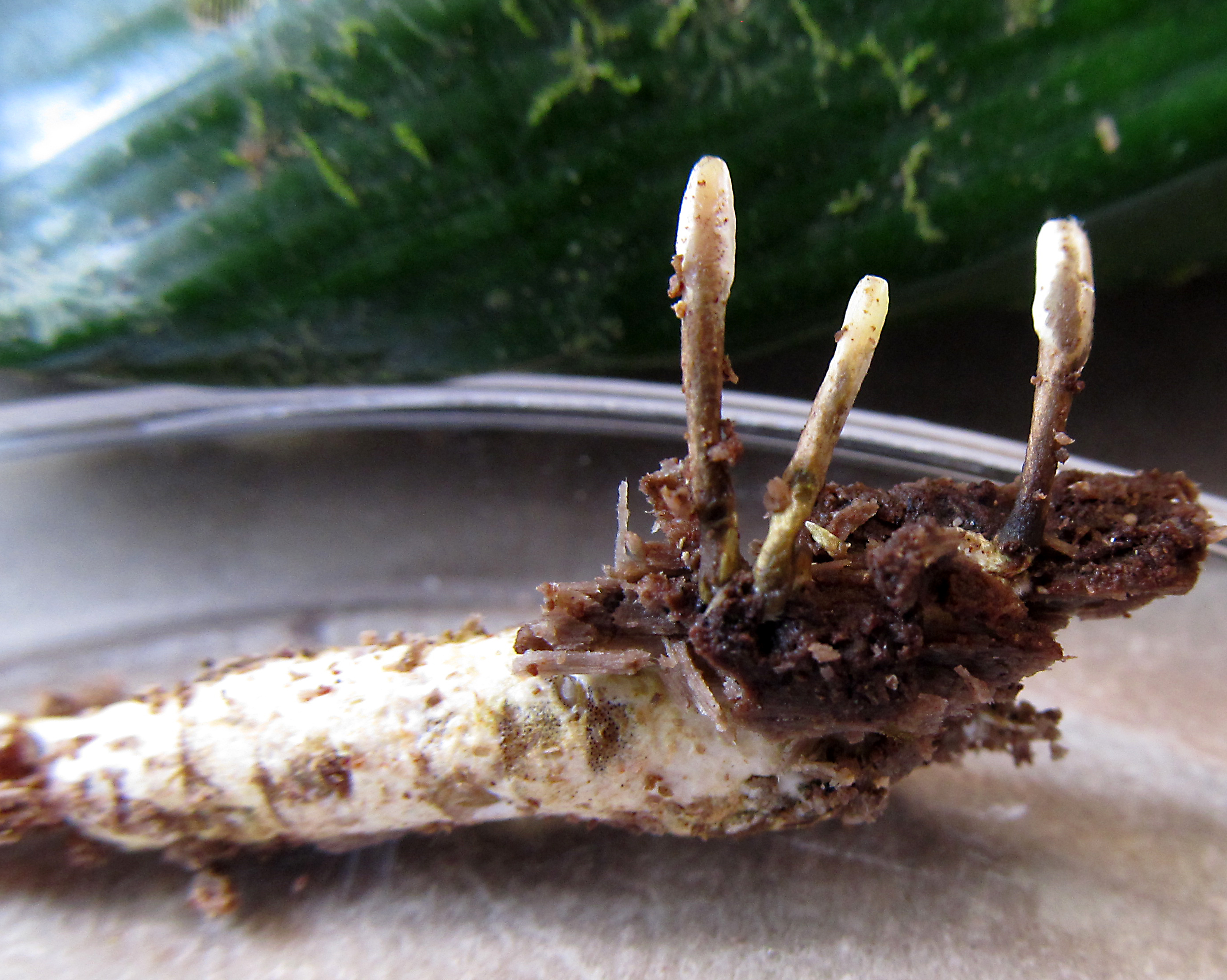 Metacordyceps sp. colectado en larva de coleoptera en Choco, Colombia